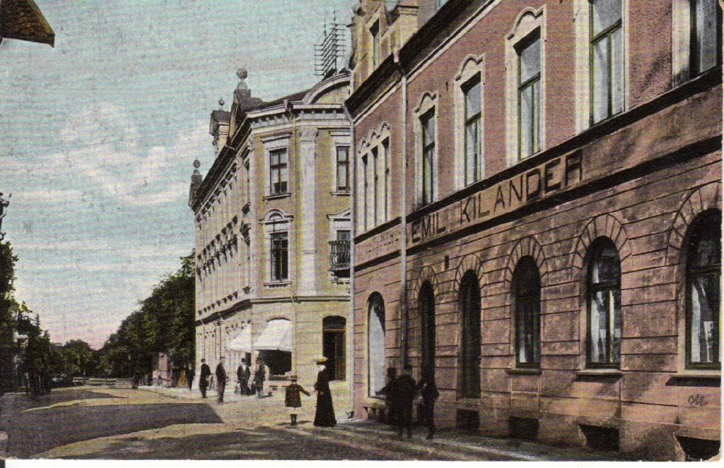 Photo of the street Sankt Olofsgatan in Falköping, Sweden. The photo was shot 1900-1910. The clothing store Emil Kilander from 1877-2013. The building was built in 1902.